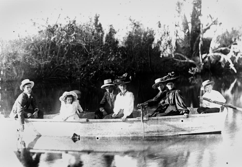 Group of men, women and children rowing across Lagoon Creek at Beldan's, North Eton, Queensland, 1900-1910 An unidentified party of people rowing across Lagoon Creek at Beldan's, possibly North Eton, in the early 1900s. (Description supplied with photograph).